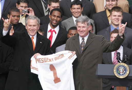 President of the United States George W. Bush and Mack Brown give the Hook 'em Horns with the 2005 Texas Longhorn football team of the University of Texas at Austin in front of the White House. White house photo.